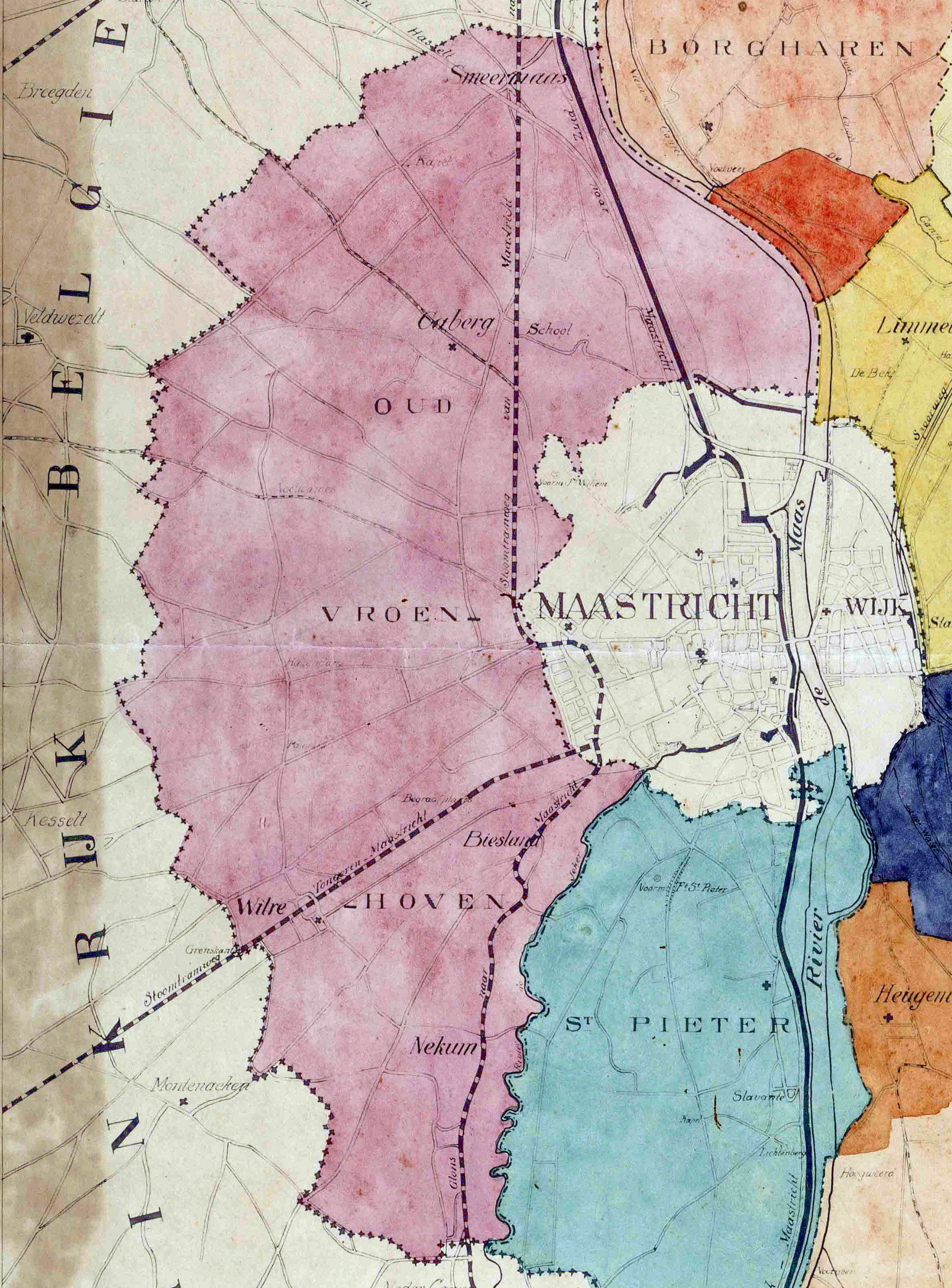 Map of annexation of Oud-Vroenhoven on the left bank of the river Meuse by the city of Maastricht, Netherlands, in 1920. Collection of RHCL Maastricht, RAL K 171 2.